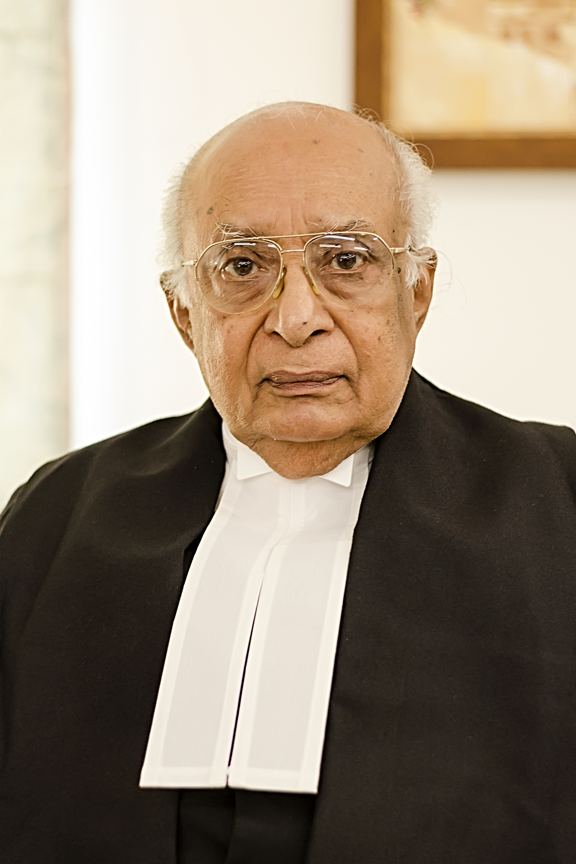 Justice K. T. Thomas portrait